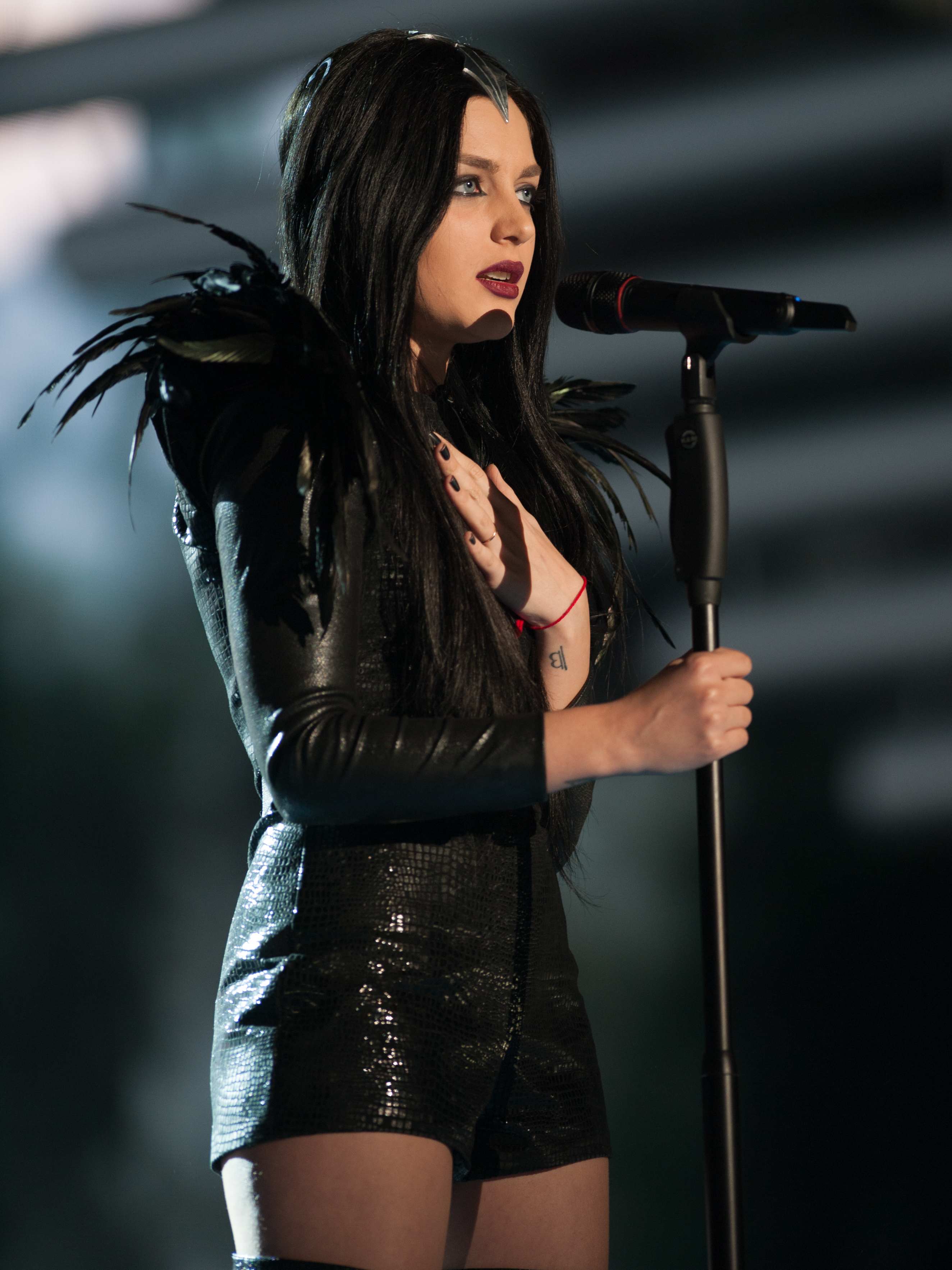 Eurovision Song Contest Vienna 2015: Nina Sublatti, Georgia